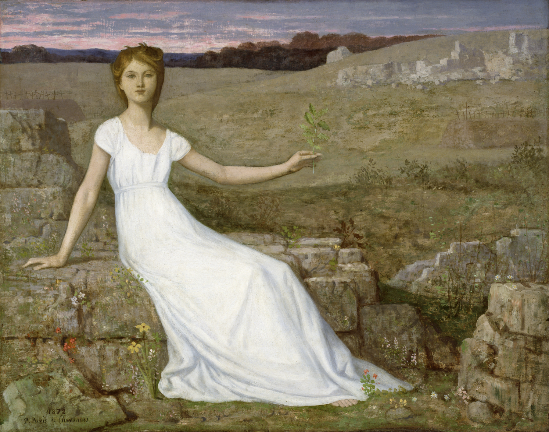 In the wake of the catastrophic Franco-Prussian War of 1870-71, the artist painted this picture of a young woman seated in a devastated landscape holding an oak twig as a symbol of hope for the nation's recovery from war and deprivation. This painting was exhibited at the Paris Salon of 1872. A smaller variant, showing the subject nude, is at the Musée d'Orsay, Paris. Puvis de Chavannes was one of the most original artists of his generation. His utopian visions, in which the figures seem to float in a dream-like landscape, served as a point of departure for many younger artists, such as Paul Gauguin (1848-1903) and Henri Matisse (1869-1954).